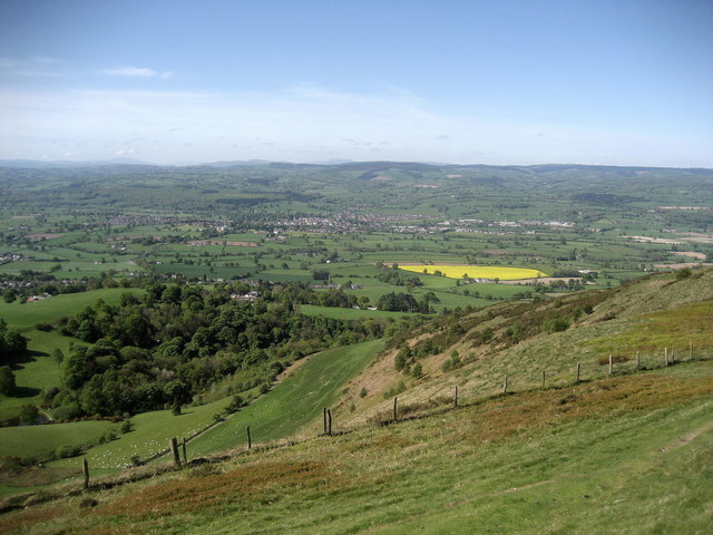 View over Vale of Clwyd Taken from the Offa's Dyke Path near Bwlch Penbarra this shows excellent views over the Vale of Clwyd and the town of Ruthin. Snowdonia is also just visible over 35 miles away.